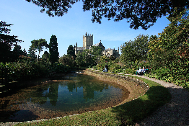 The Wells, Bishop's Palace Gardens - Wells The origin of the City of Wells' name lies here in the springs that rise in the outer gardens of the Bishop's Palace. Across the pool lies St Andrew's Well.